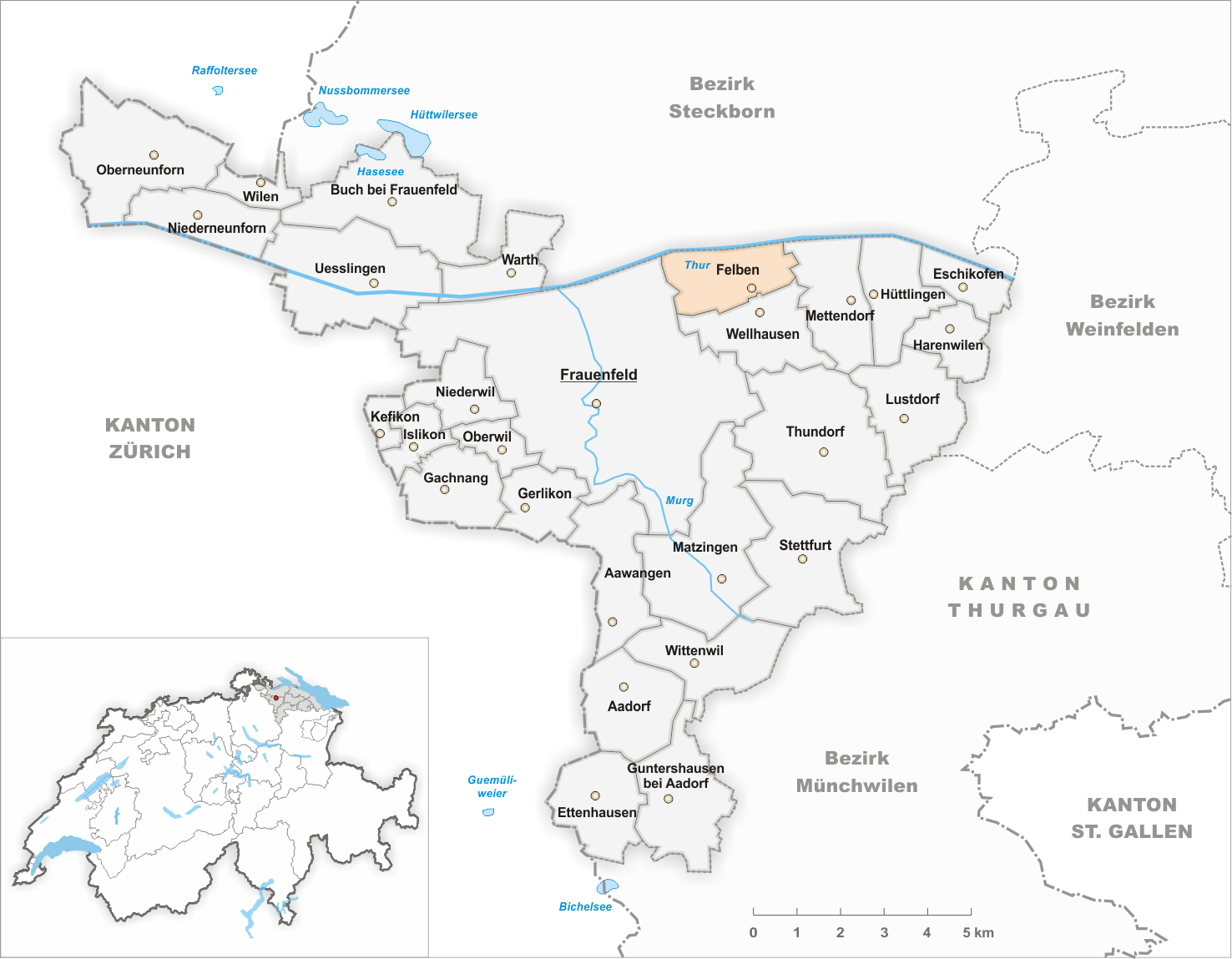 Municipality Felben